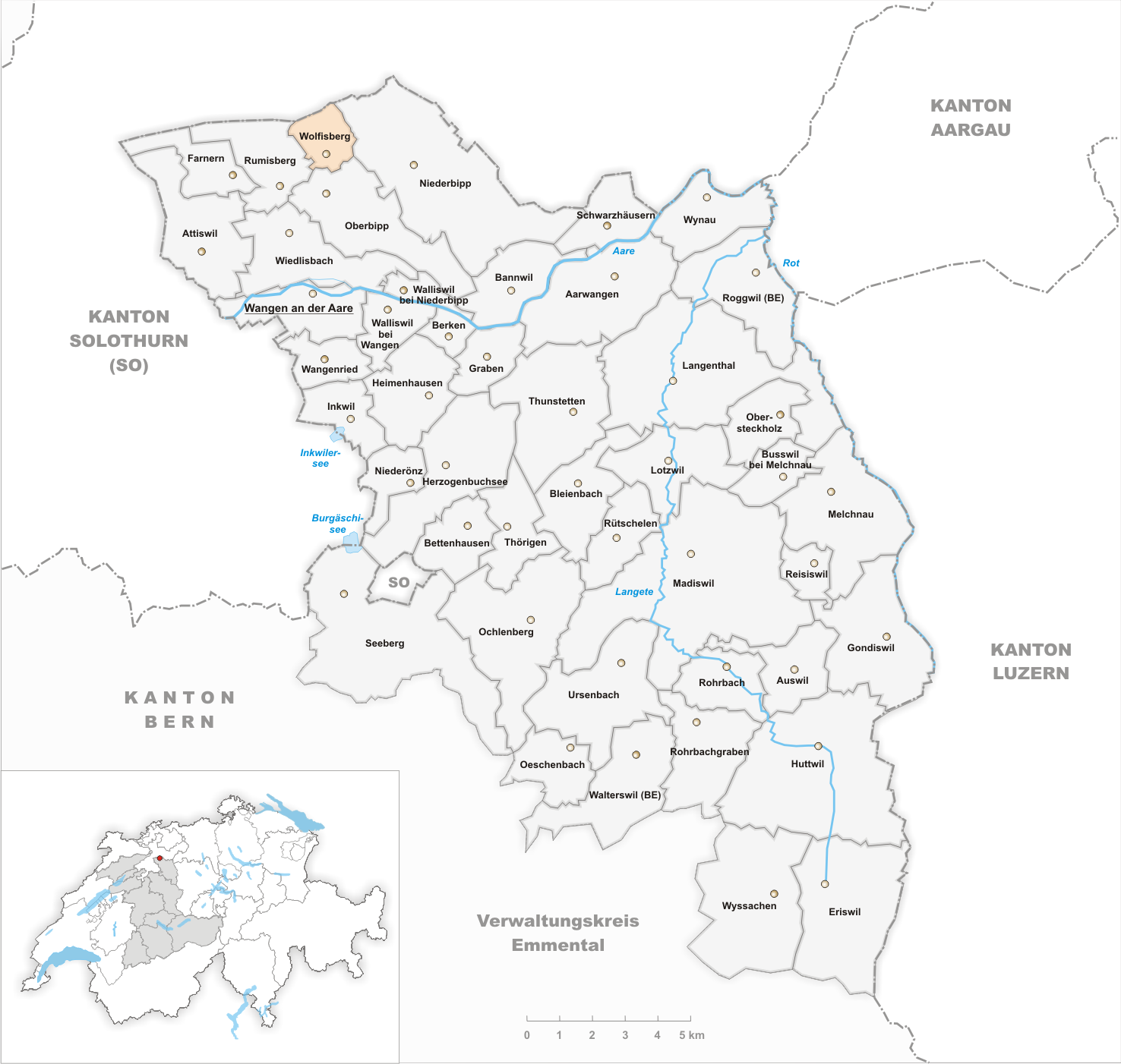 Municipality Wolfisberg